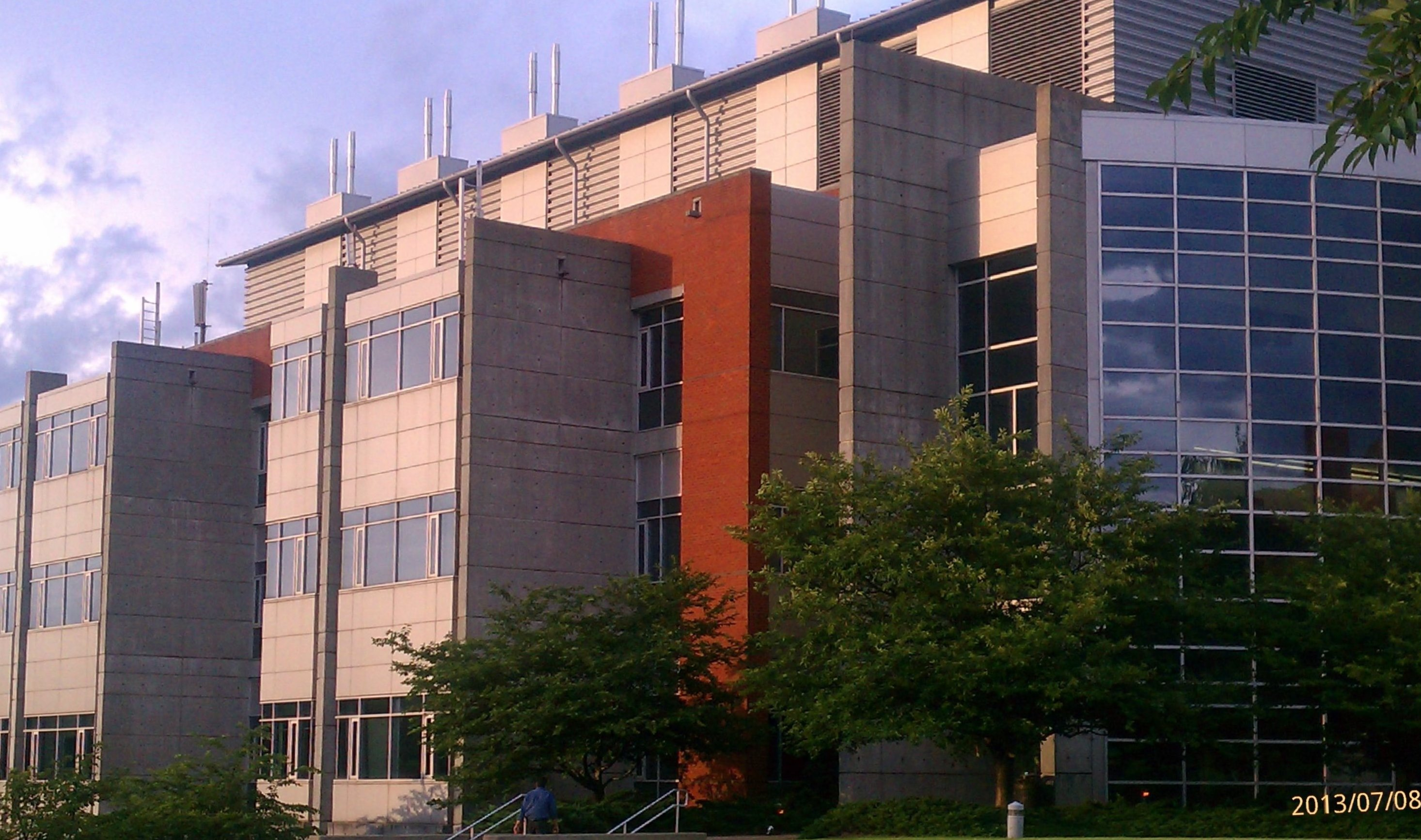 J. Erskine Love Jr. Mfg Building (adjusted)